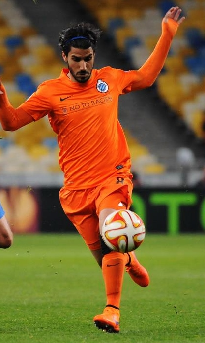 Lior Refaelov